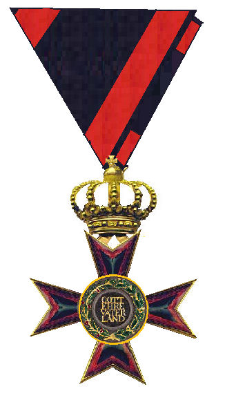 Ludwigsorden